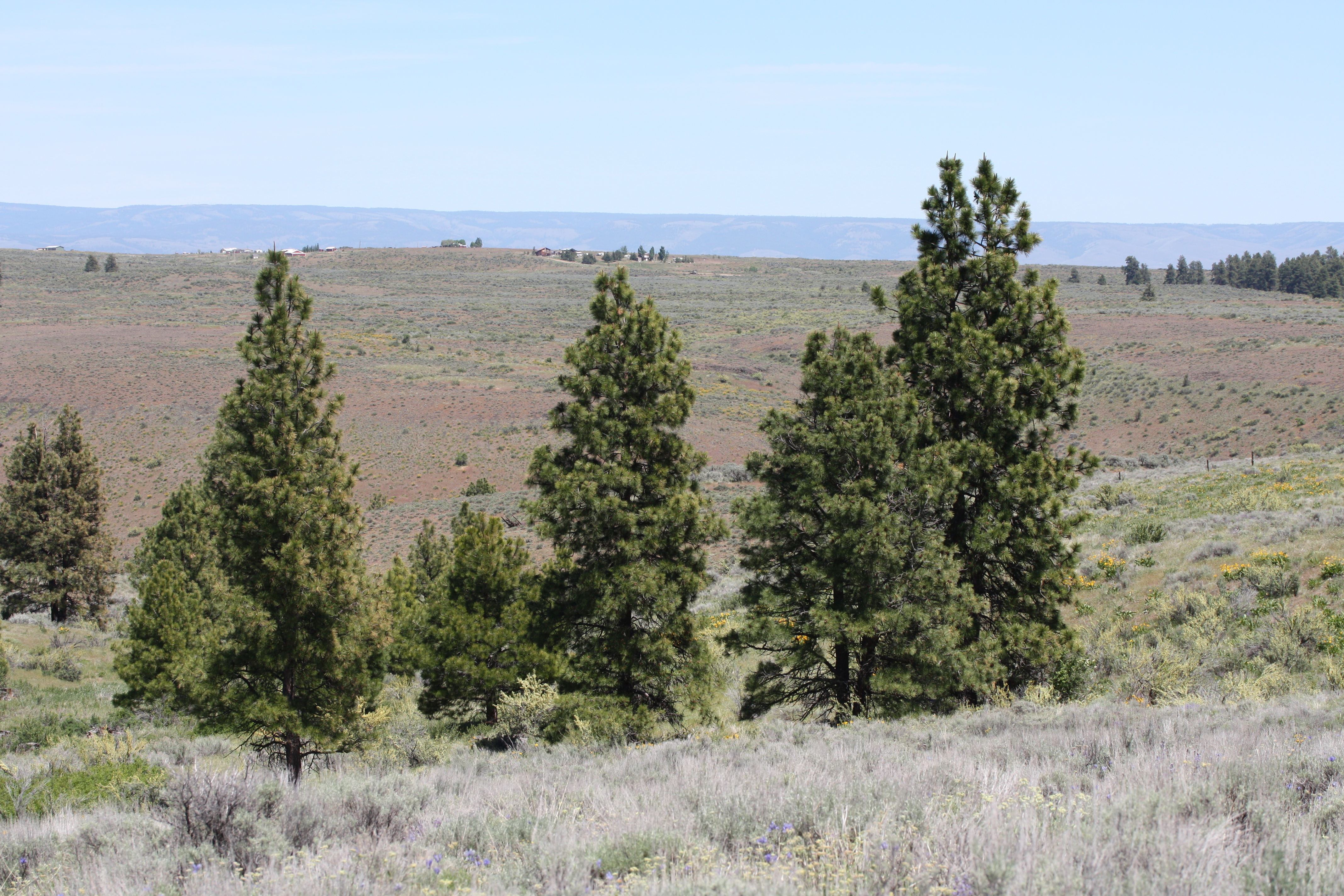 Ponderosa Pine, Western Yellow Pine, Blackjack or Bull Pine